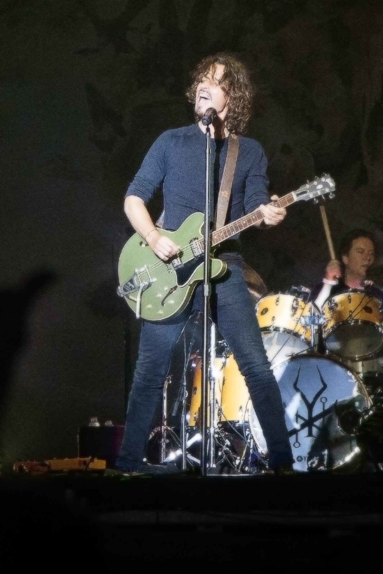 Chris Cornell perform with Soundgarden in Argentina (2014)